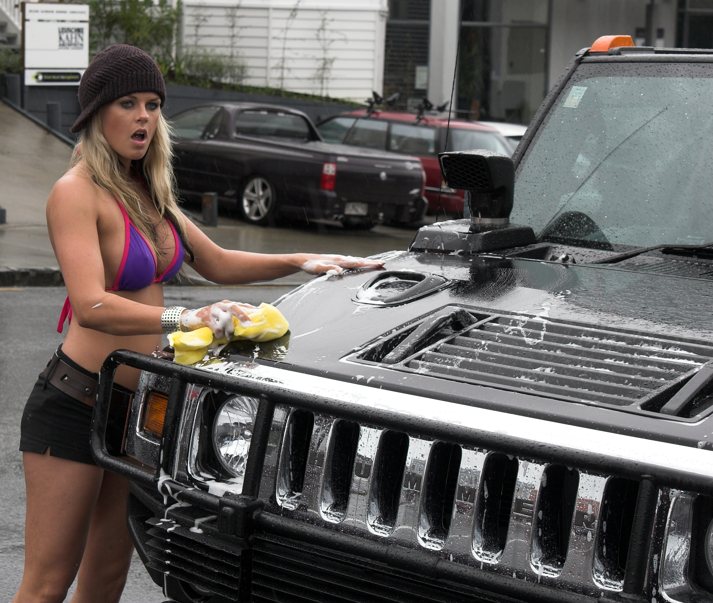 Bikini Hummer Wash. From Auckland, New Zealand.